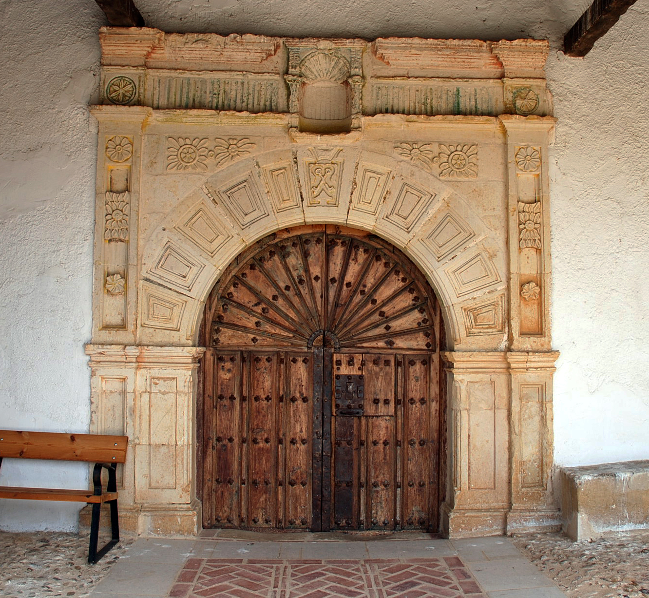 Church of Saint John the Baptist in Olea de Boedo (Palencia, Castile and León).